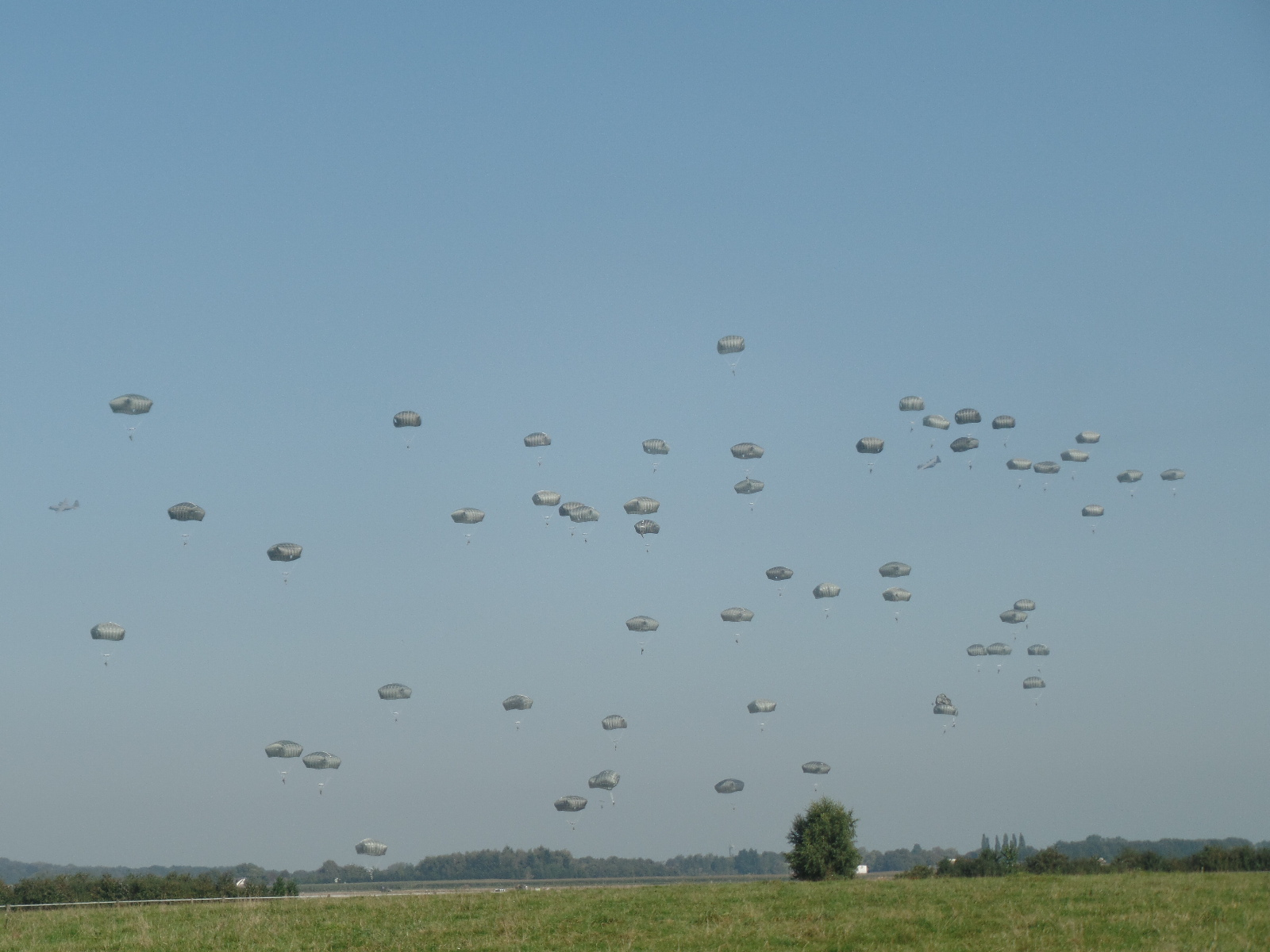 Paratroopers of the 82nd airborne division jump at the 2014 Market Garden memorial, Landgoed Den Heuvel, Groesbeek, Netherlands, 18th September 2014. Location is very near to the original WW2 dropzone used by the 505th and 508th PIR on the 17th of September 1944 according to this map. Two (of four involved) Hercules C-130 aircraft can be seen in the background. In the lower right corner a not fully opened parachute can be seen.